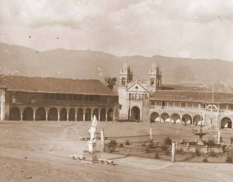 Plaza ayacucho 1920